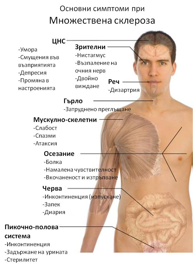 Main symptoms of Multiple sclerosis. Sources are found in main article: Wikipedia:Multiple sclerosis#Signs and symptoms. Model: Mikael Häggström. To discuss image, please see Template_talk:Häggström diagrams